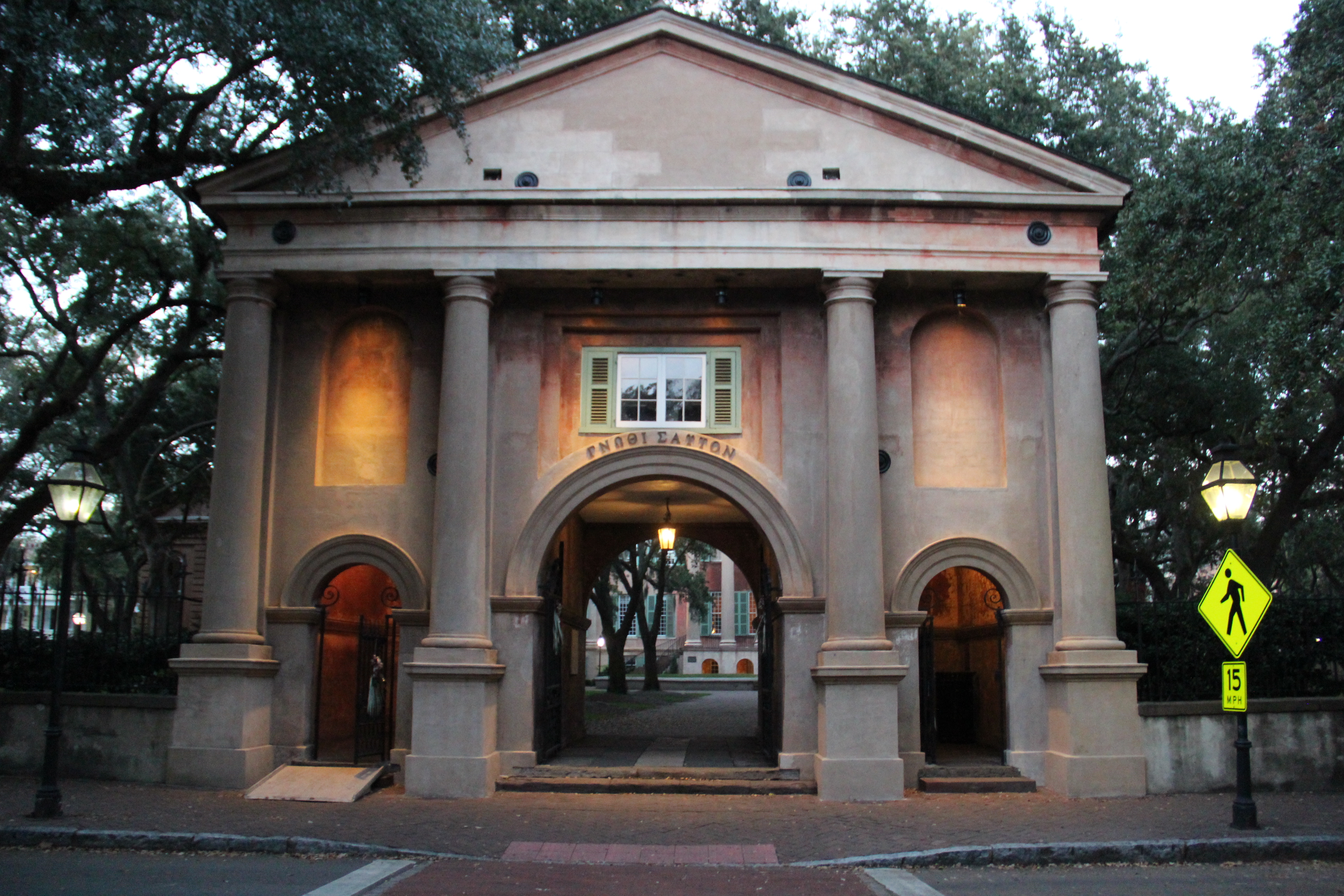 Porters Lodge, College of Charleston